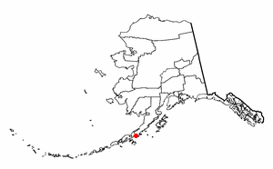 Adapted from Wikipedia's AK borough maps by Seth Ilys.